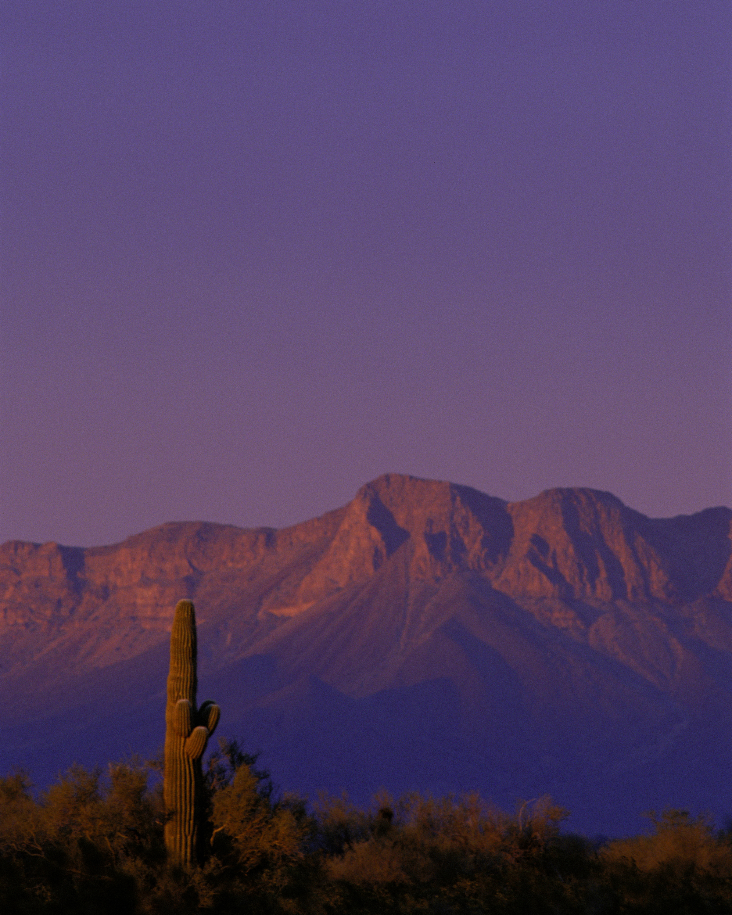 View from Cabeza Prieta National Wildlife Refuge, Arizona [1]